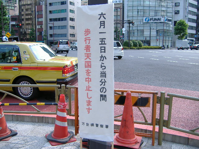 Tokyo Metropolitan Police signboard "Pedestrian precinct shall be discontinued for the time being from June 15."